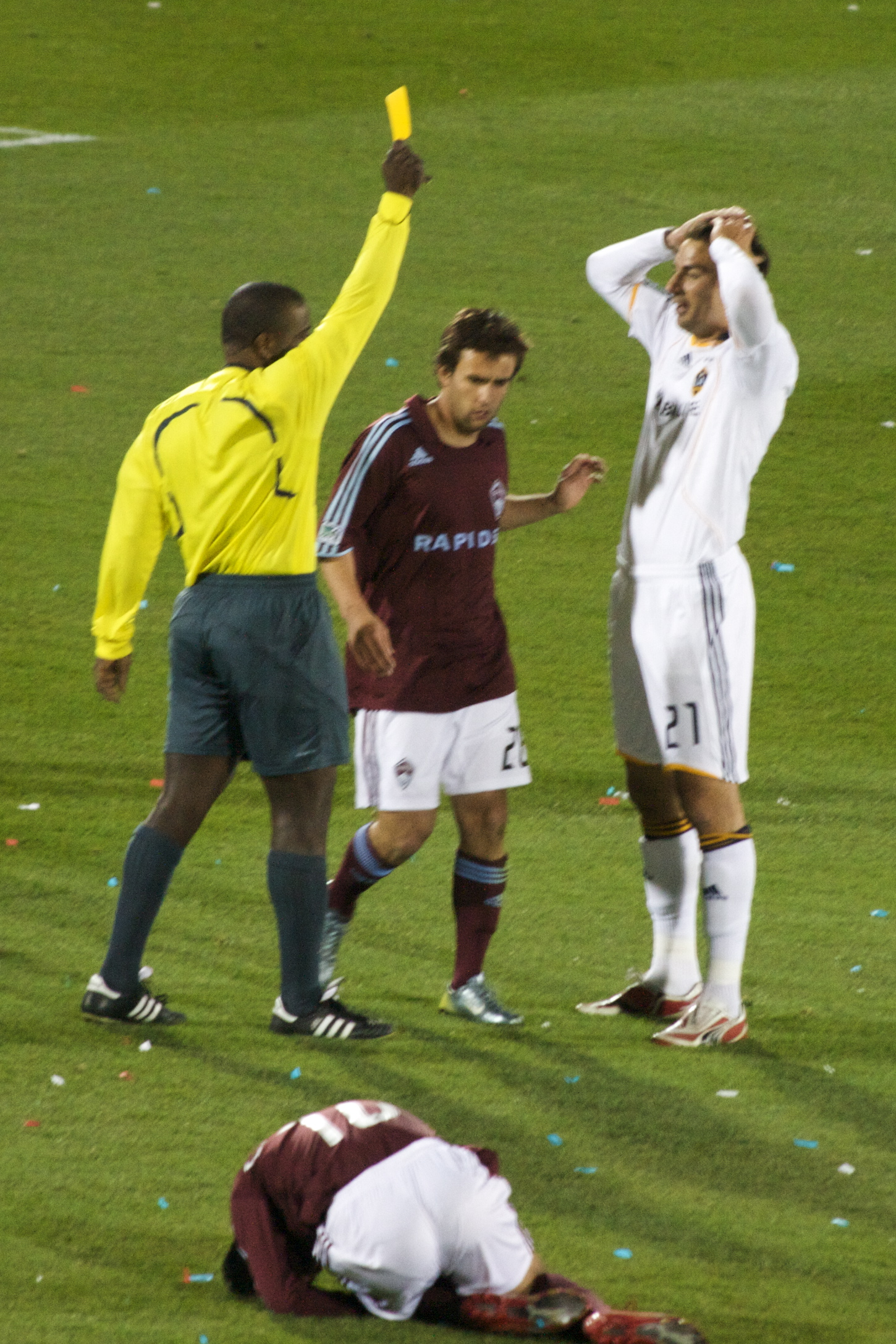 A player (in white) is shown a yellow card by the referee.